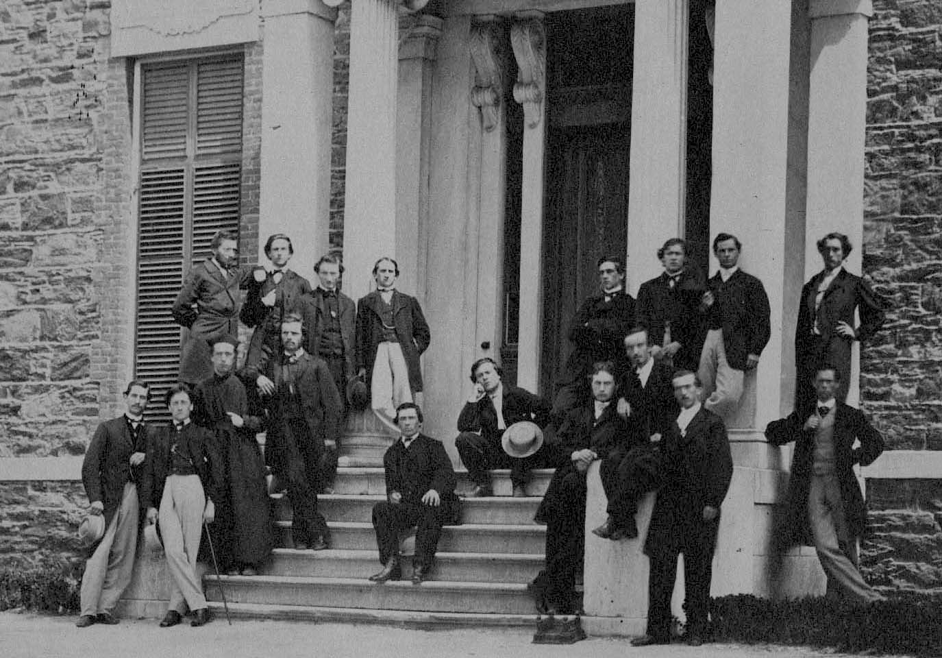 St. John's College (Fordham) class of 1856